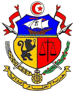 Coat of Arms of the Kingdom of Tunisia 1956